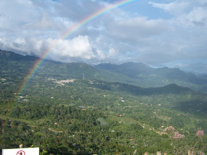 Image of Cachipay Cundinamarca Colombia